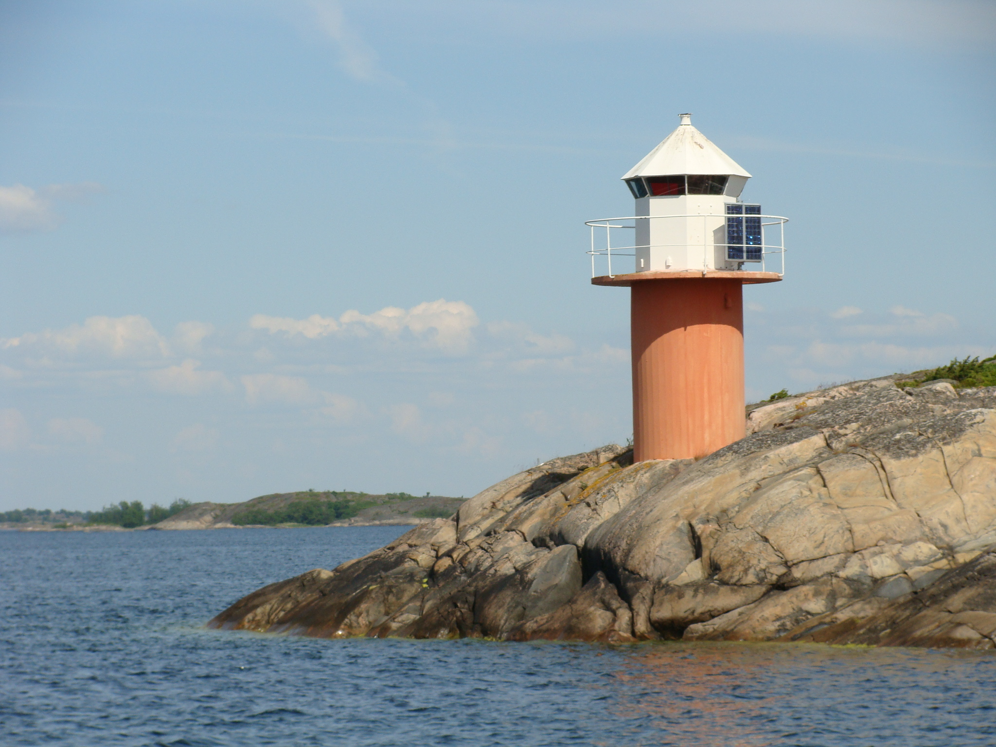 Sector light Notö on the northern tip of Nottö island by the fairway leading to the harbour of Lappo in Åland Islands, Finland. Light powered by a solar panel.